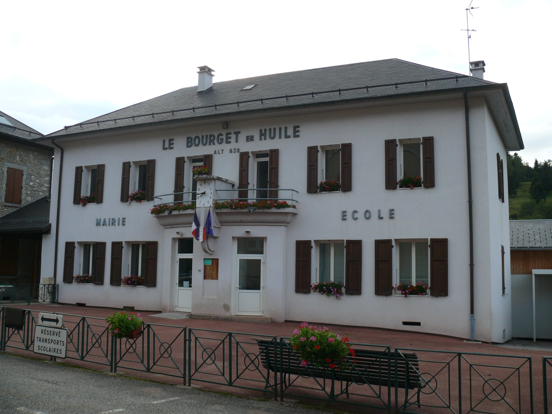 The city hall of Bourget-en-Huile (Savoie, Rhône-Alpes, France).